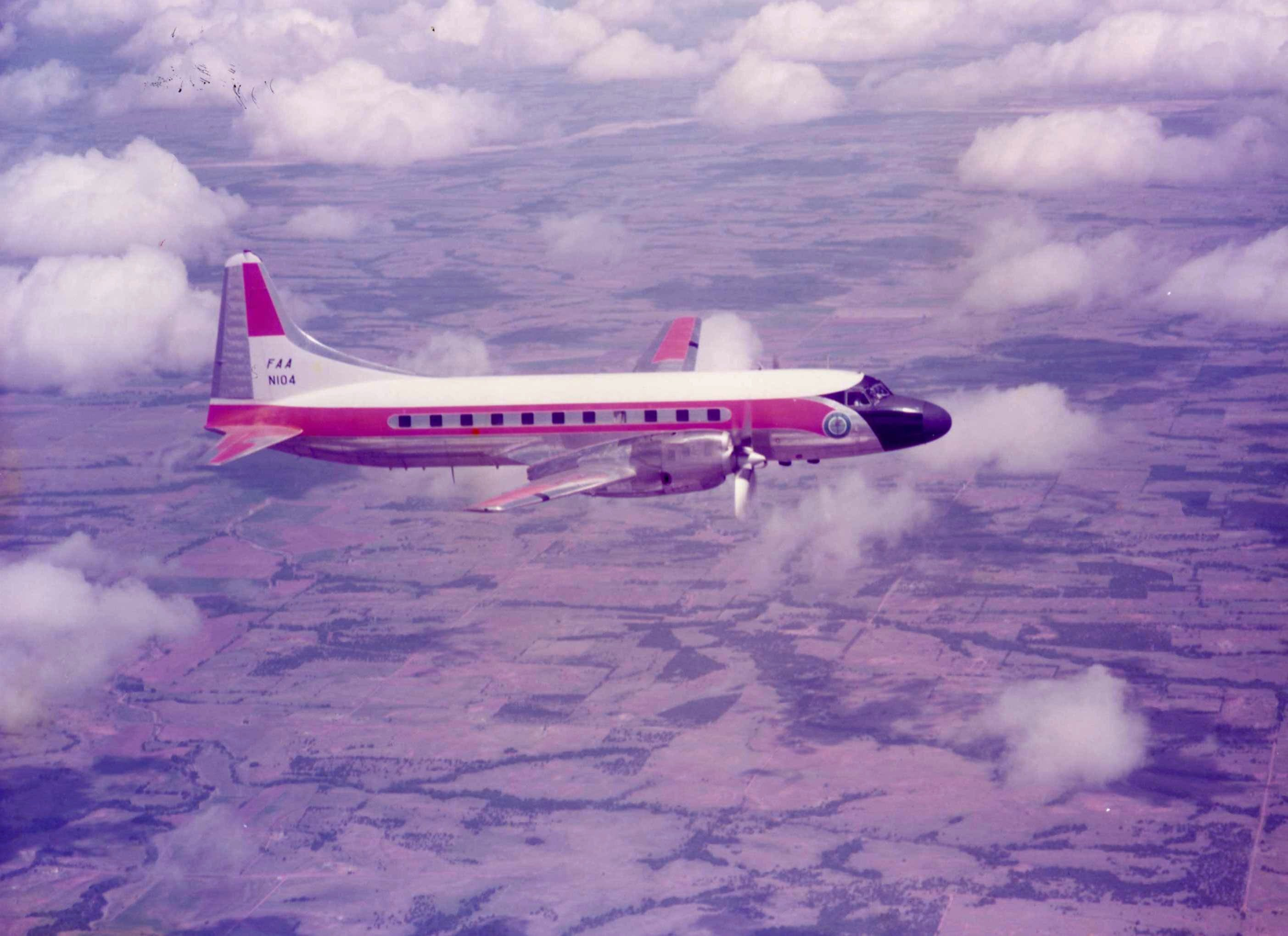 United States, Federal Aviation Administration Convair 540 N104, c/n 480, allocated to United States Air Force as 57-2551. Converted to C-131E-CO and delivered to FAA in 1968-04-01 as N104. In 1975 was re-registered N30, then N74 in 1976 and N39 in 1991-06-25.